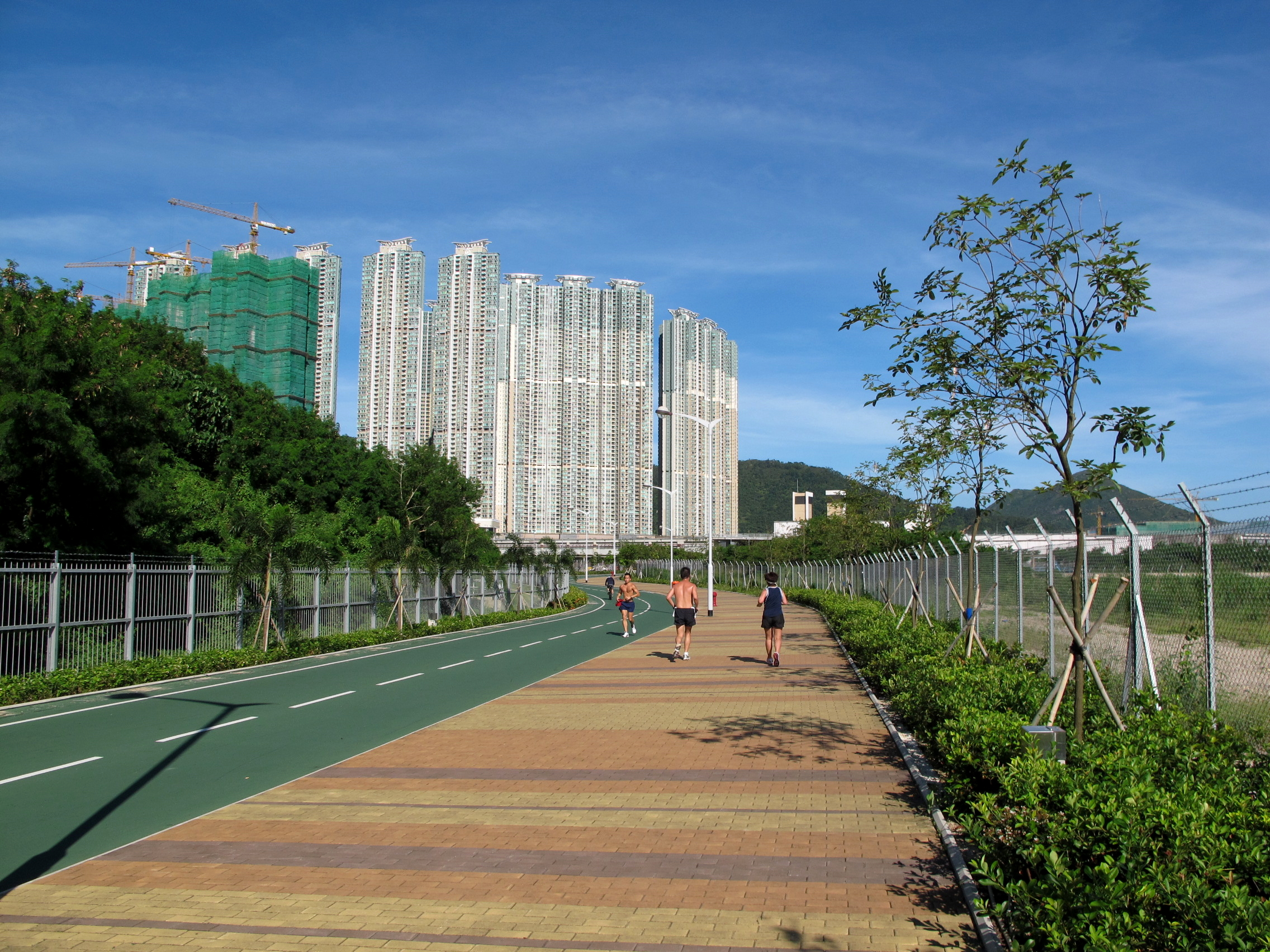 Tseung Kwan O South Waterfront Promenade